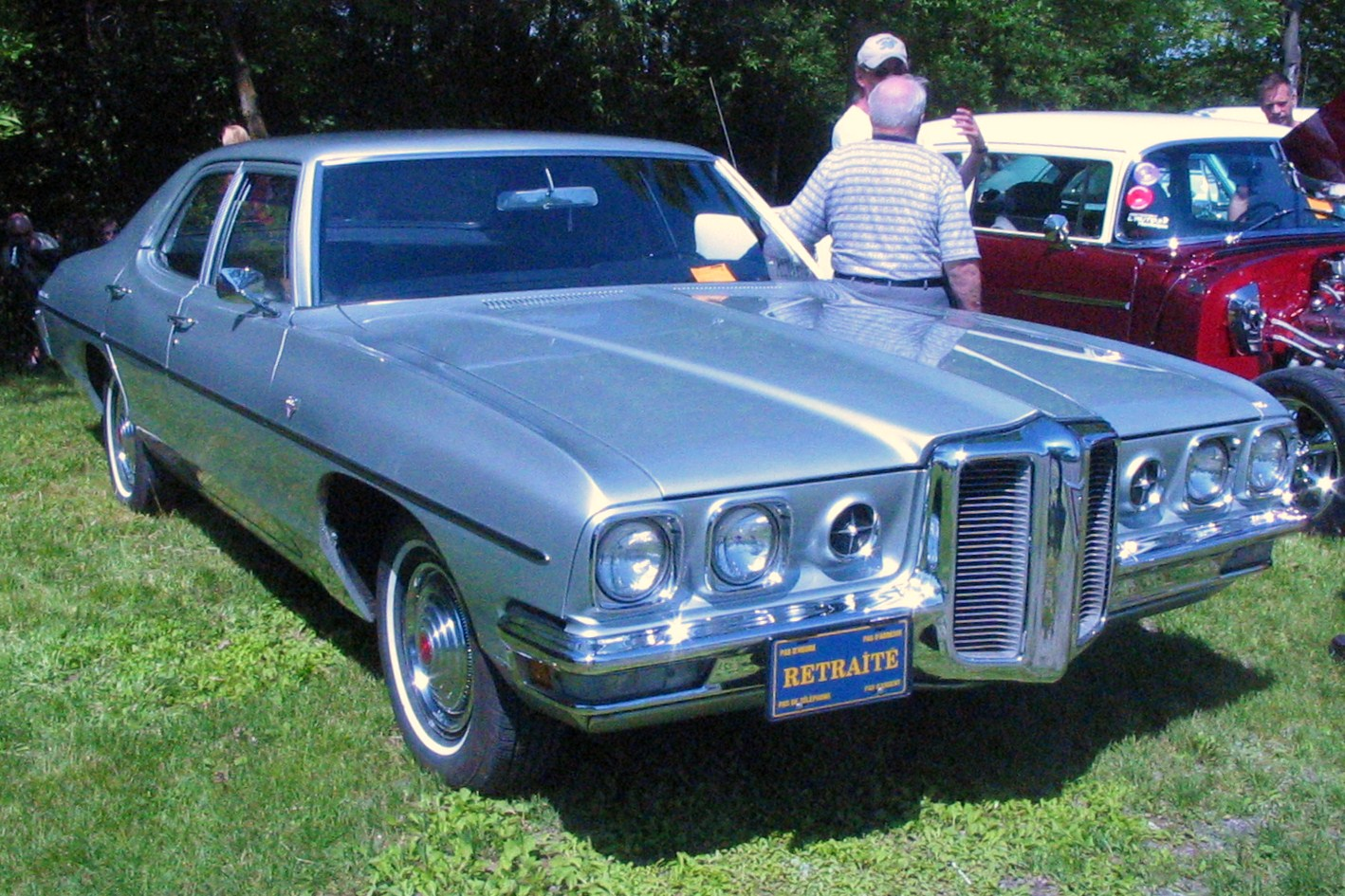 1970 Pontiac Laurentian photographed in Laval, Quebec, Canada at the Auto classique Laval.